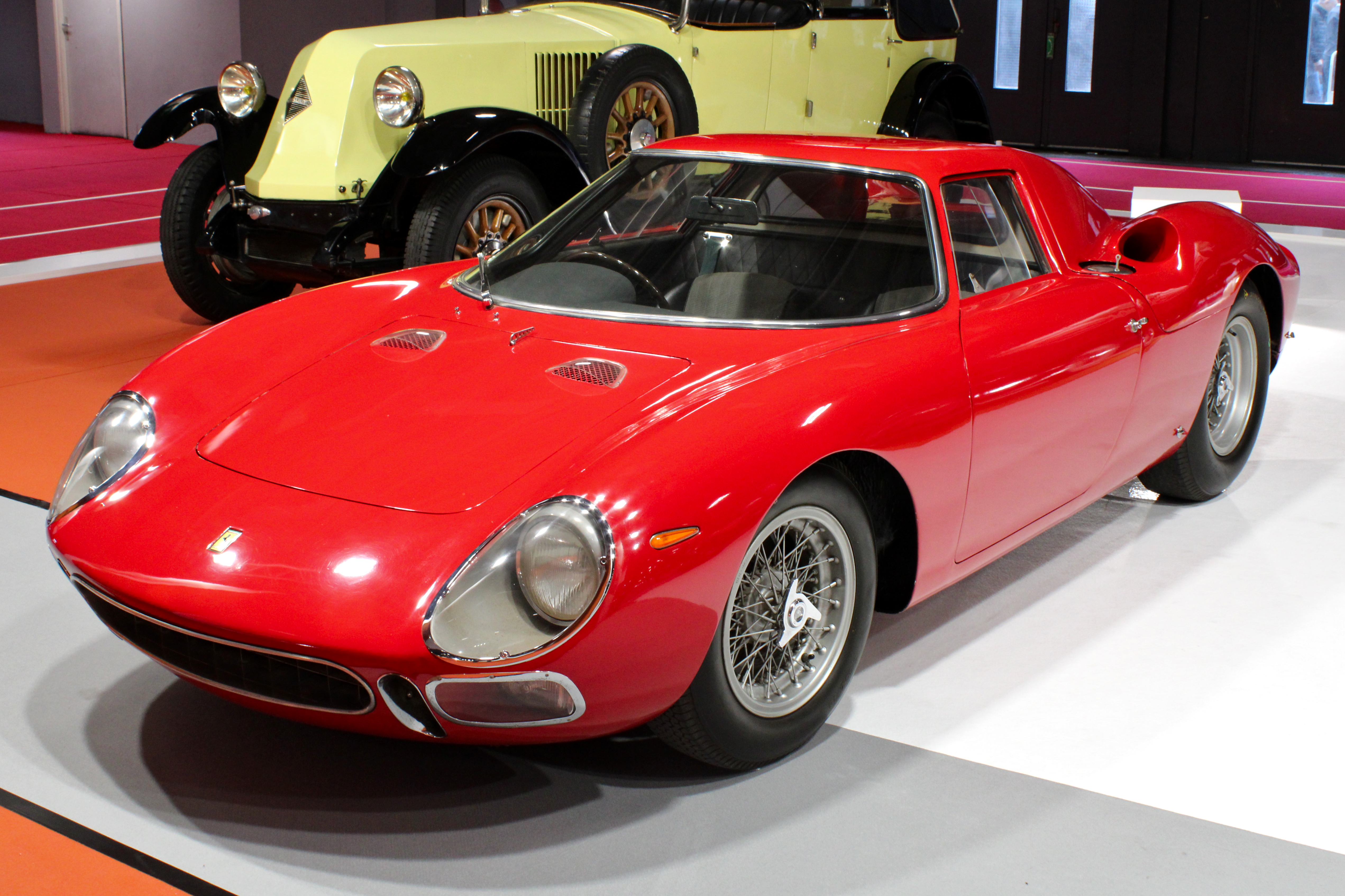 1965 Ferrari 275 LM (aka 250 LM) chassis 5975 at Paris Motor Show 2018